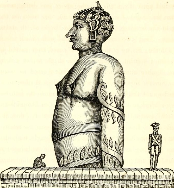 Colossal Statue at Nungydeo (1806)